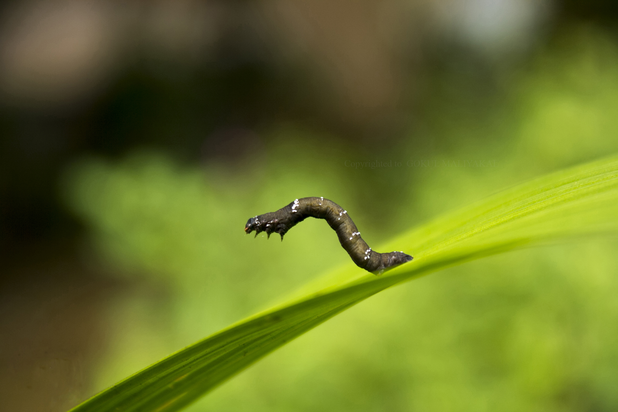 Moth larva a1 from india kerala idukki mooamattom by gokul maliyakal